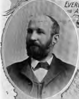 Portrait of New York assemblyman Eugene L. Demers